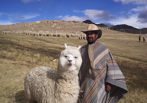 A Bolivian man with his Alpaca (herd in background)